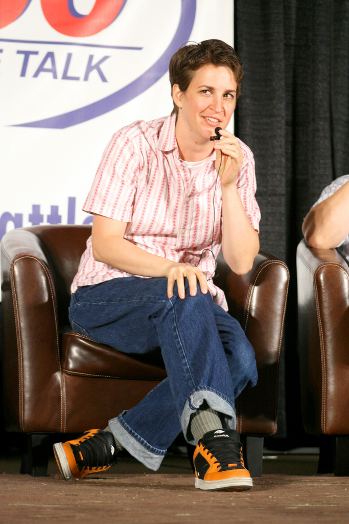 Rachel Maddow in Seattle.